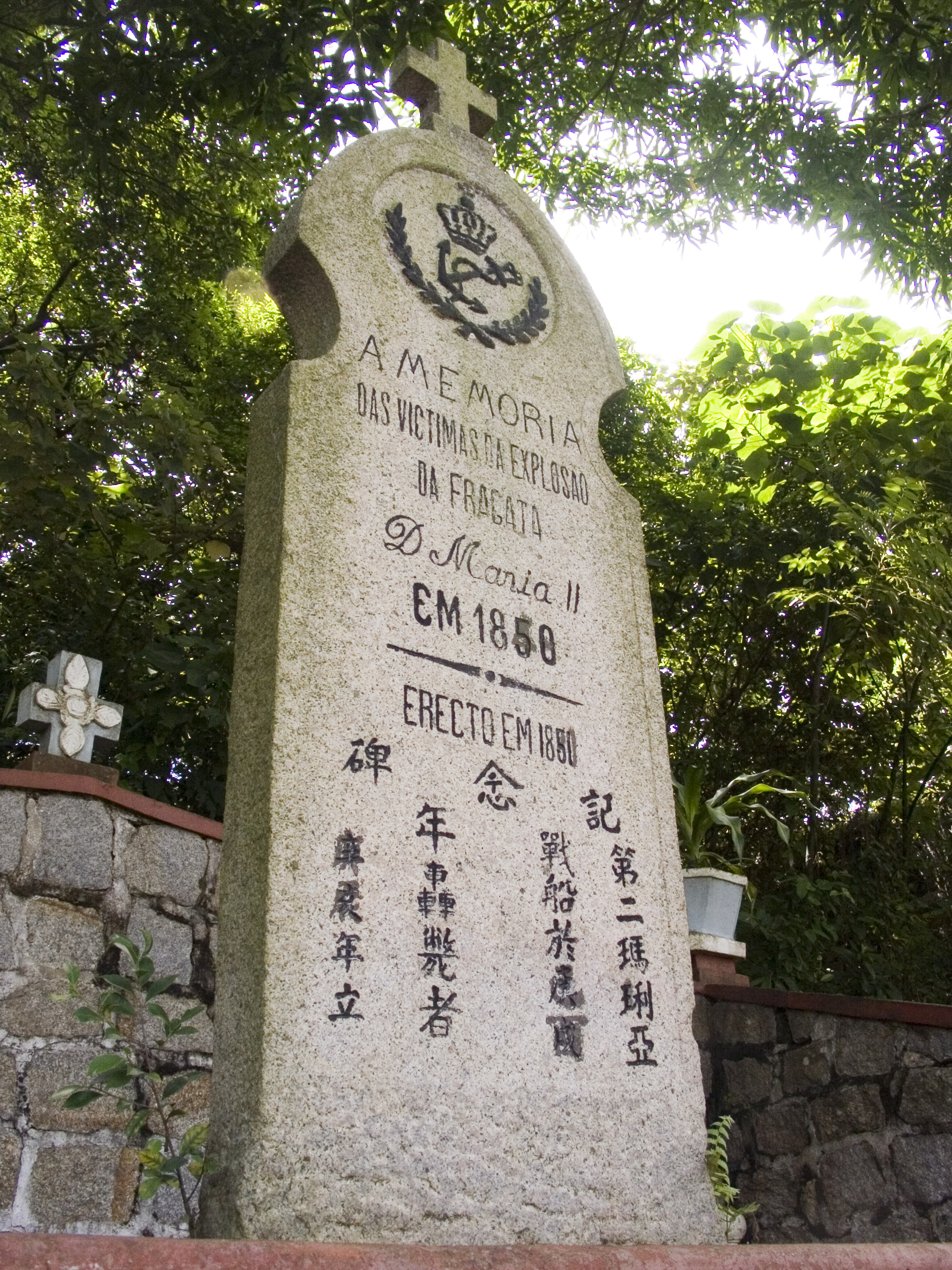 Taken by Glio The monument in Jardim do Monumento, Taipa, Macao